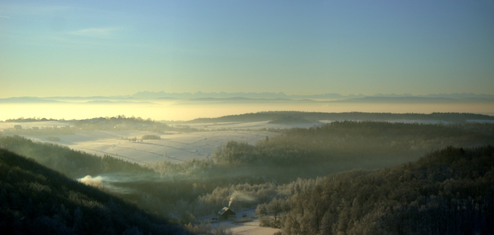 High Tatras seen from the top of Grodzisko [Skałka 502] (512.8 m.; 1682.4 ft) on December the 5th 2010 at 9:06. Distance to Tatra: around 115 km (71.5 miles)